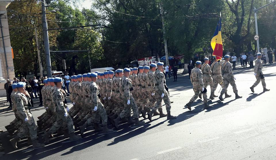 У Кишиневі українські військовослужбовці готуються до участі в параді з нагоди 25-ї річниці незалежності Республіки Молдова